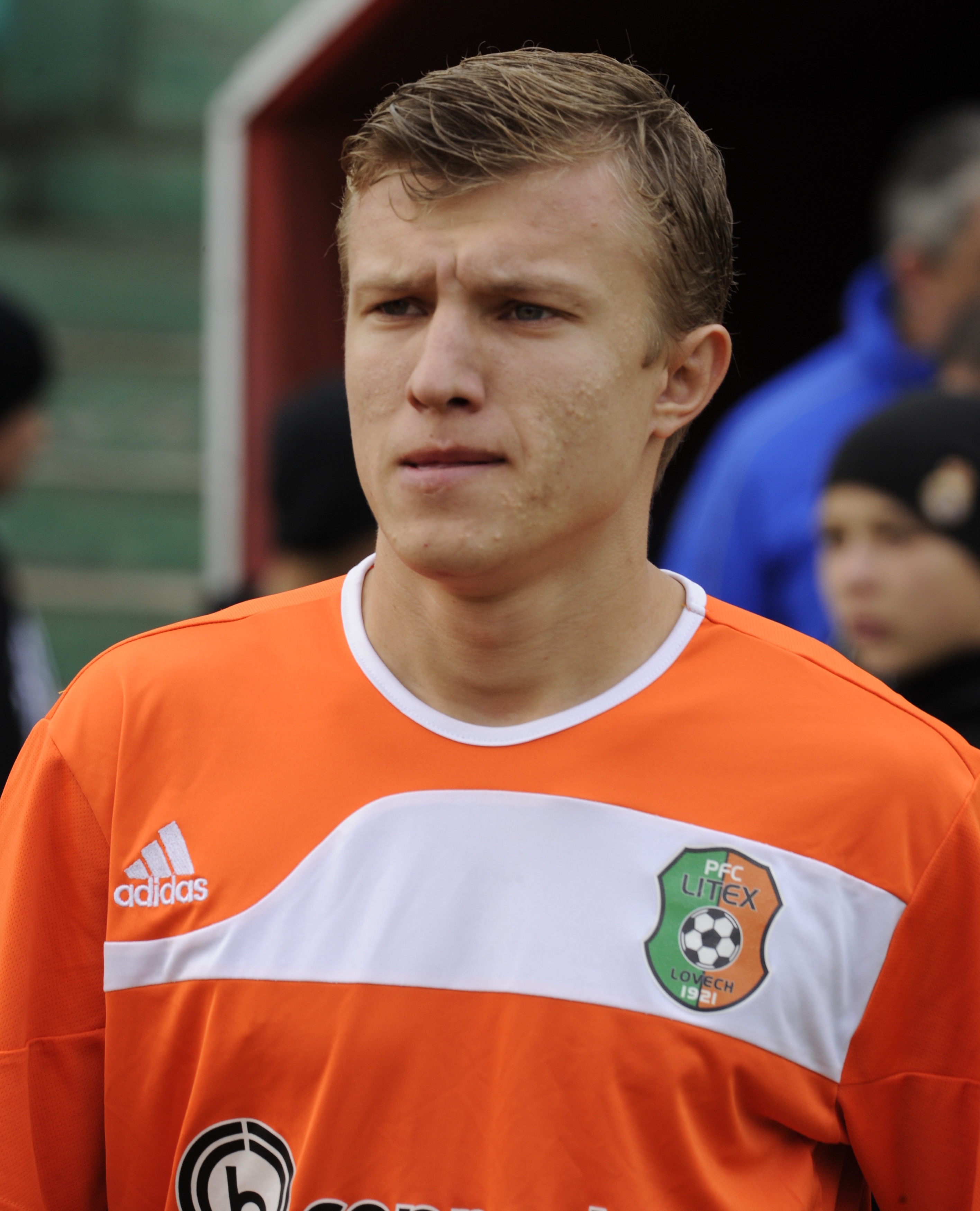 Armando Vajushi, аlbanian footballer, Litex Lovech